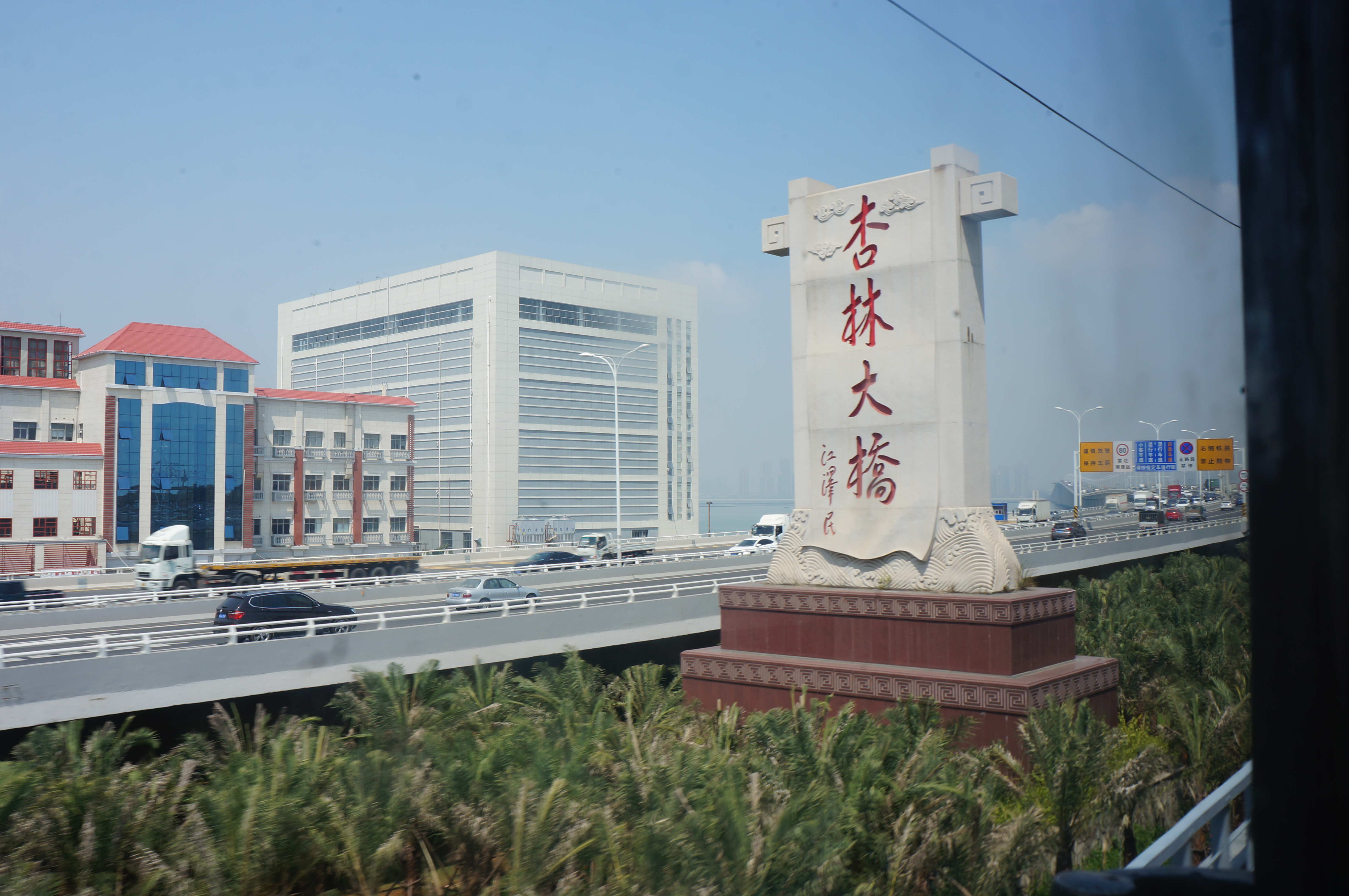 201708 Sign of Xinglin Bridge